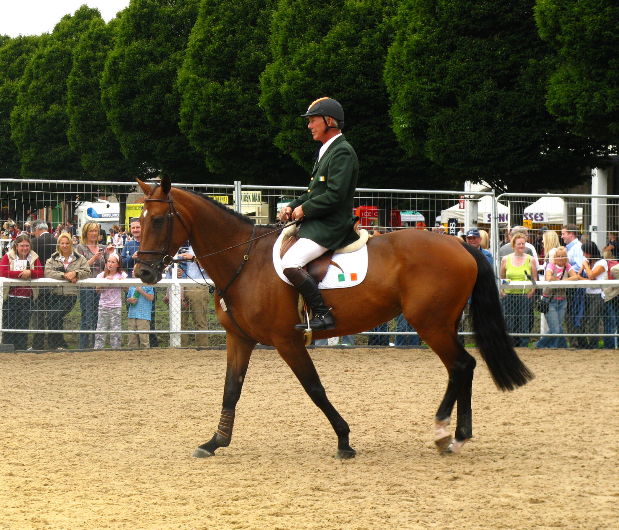 Eddie Macken and Tedechine Sept in the main practise arena at Dublin Horse Show, Ireland. Samsung Aga Khan Nations Cup 5* Superleague 1m55 €156,000